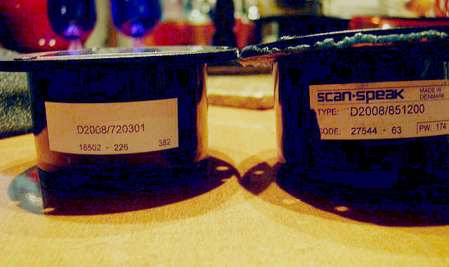 Linn Isobarik loudspeaker